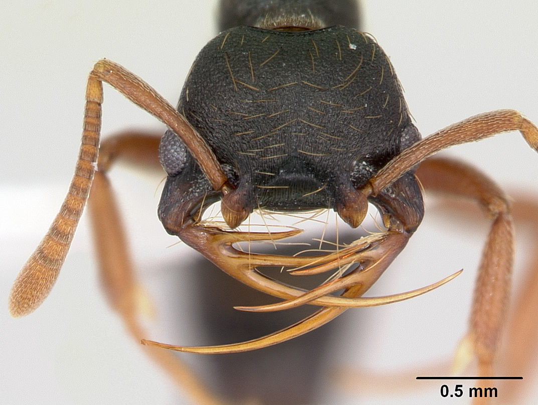 Head view of ant Thaumatomyrmex mandibularis specimen casent0173030.